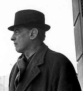 Witold Gombrowicz in Vence.